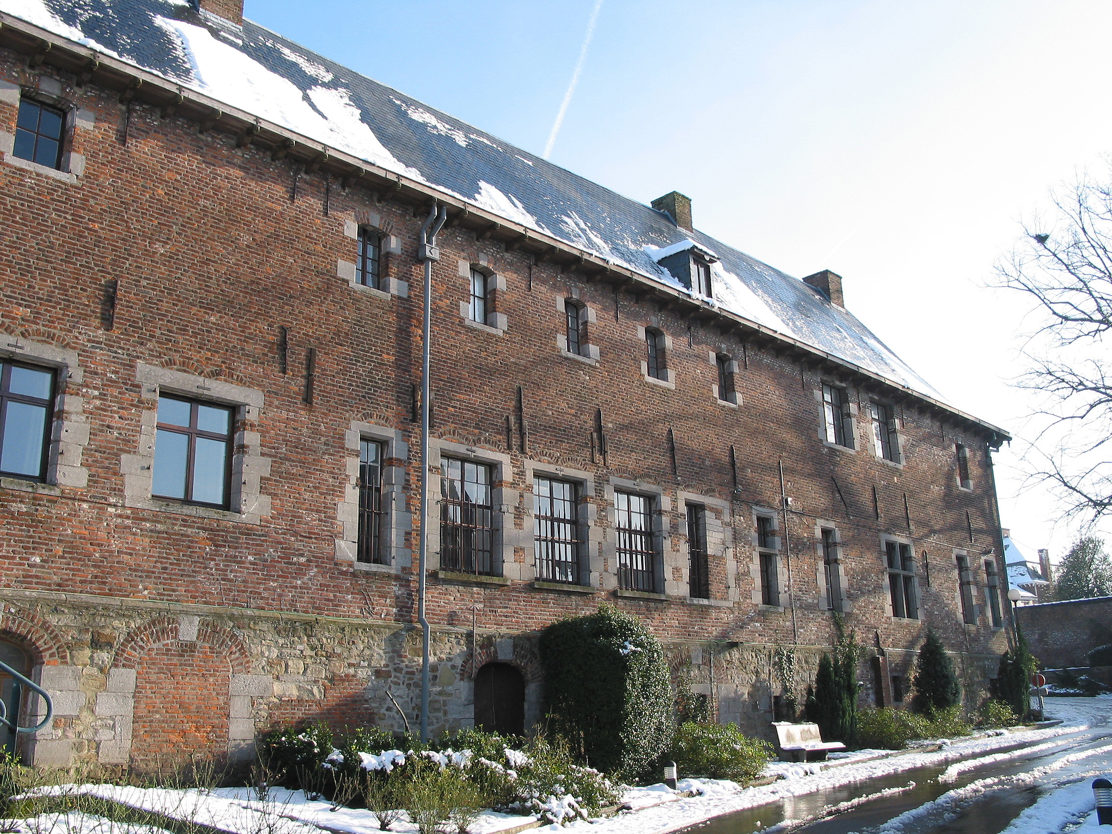 Le Rœulx (Belgium), the St. Jacques Hospice (XVII/XVIIIth centuries).